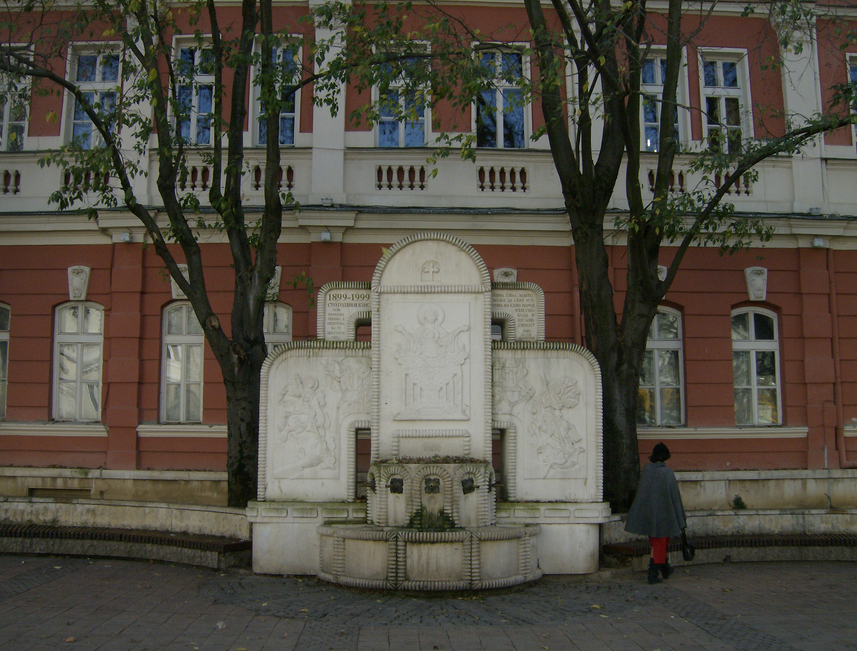 BAPU memorial drinking fountain, Pleven